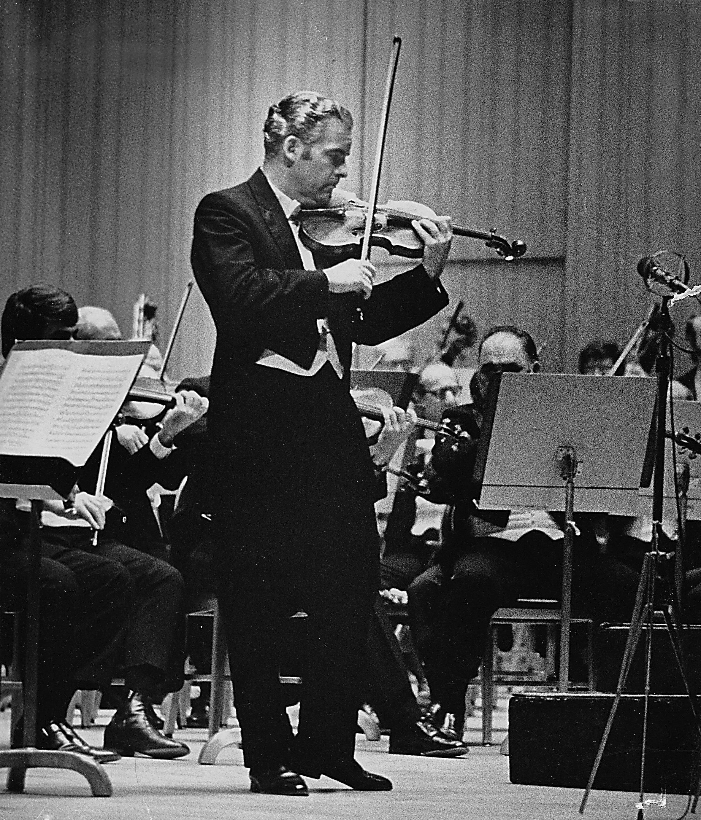 NormanCarolViolin